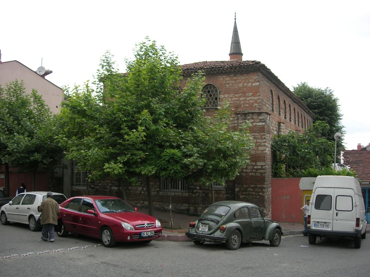 The former Church of the Saint Nicholas( today Kefeli Mescidi) in Istanbul viewed from S